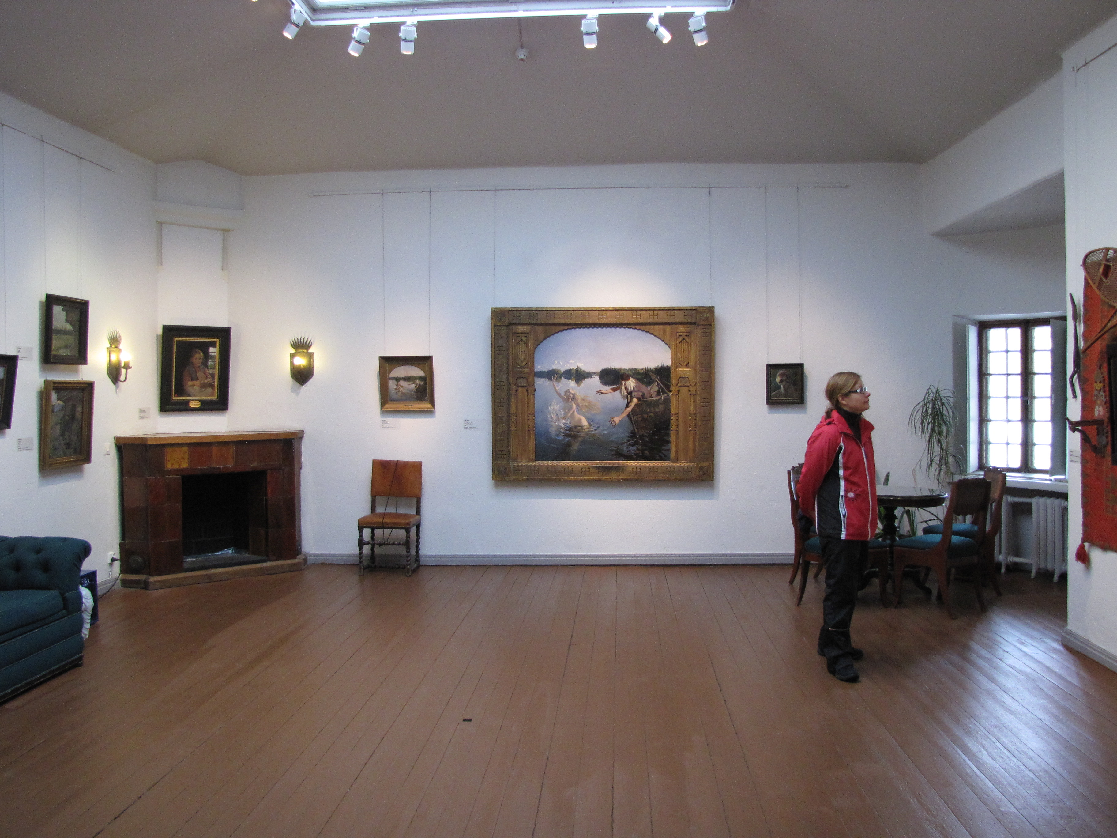 Gallery room at Tarvaspää Gallen-Kallela museum in Espoo. A study of Aino-triptych by Axel Gallén (1865-1931) along with other paintings. Photographed during the "All or Nothing – The Young Axel Gallén!" exhibition.